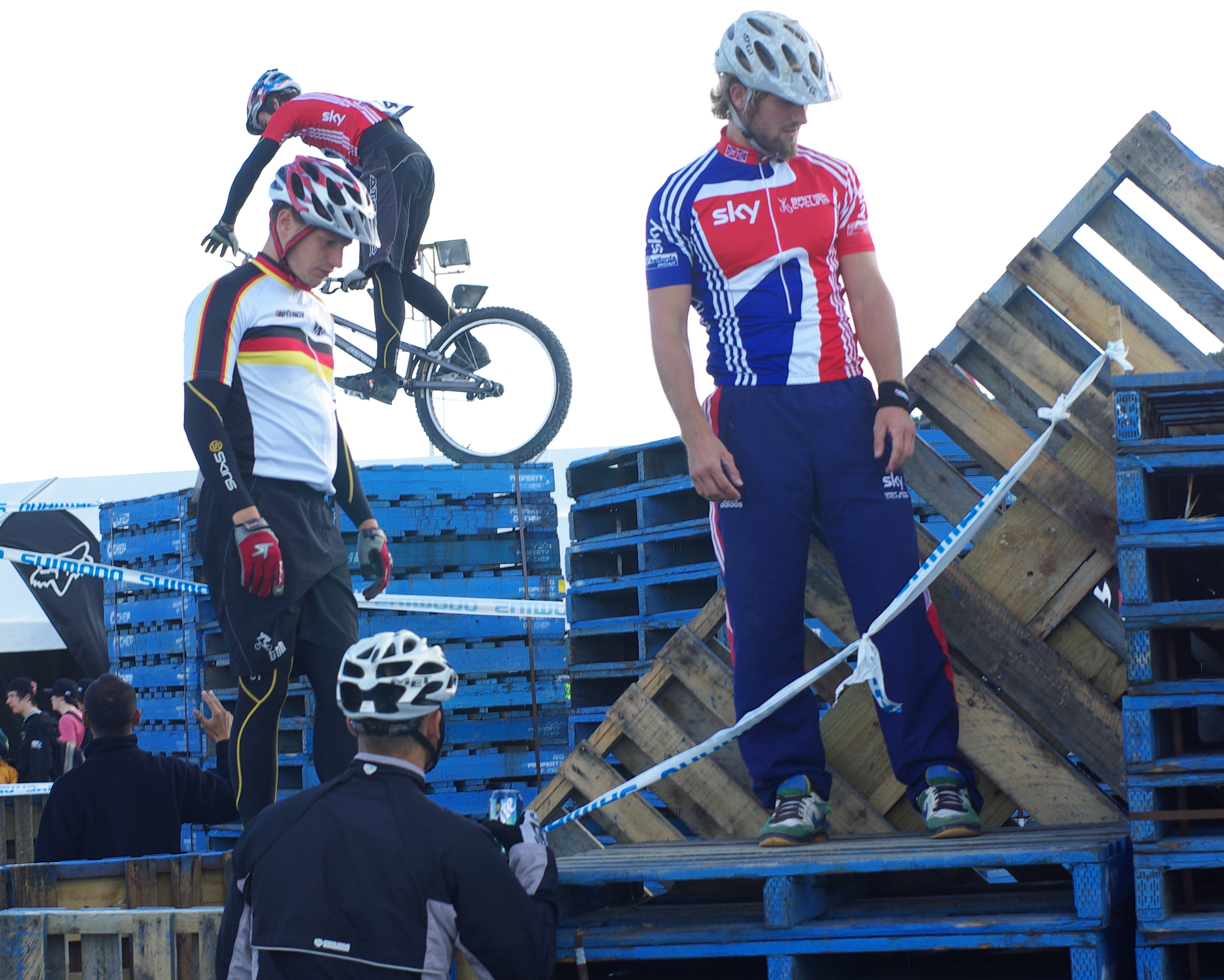 Competitor in the observed trials events at the 2009 UCI Mountain Bike & Trials World Championships held in Canberra, Australia.